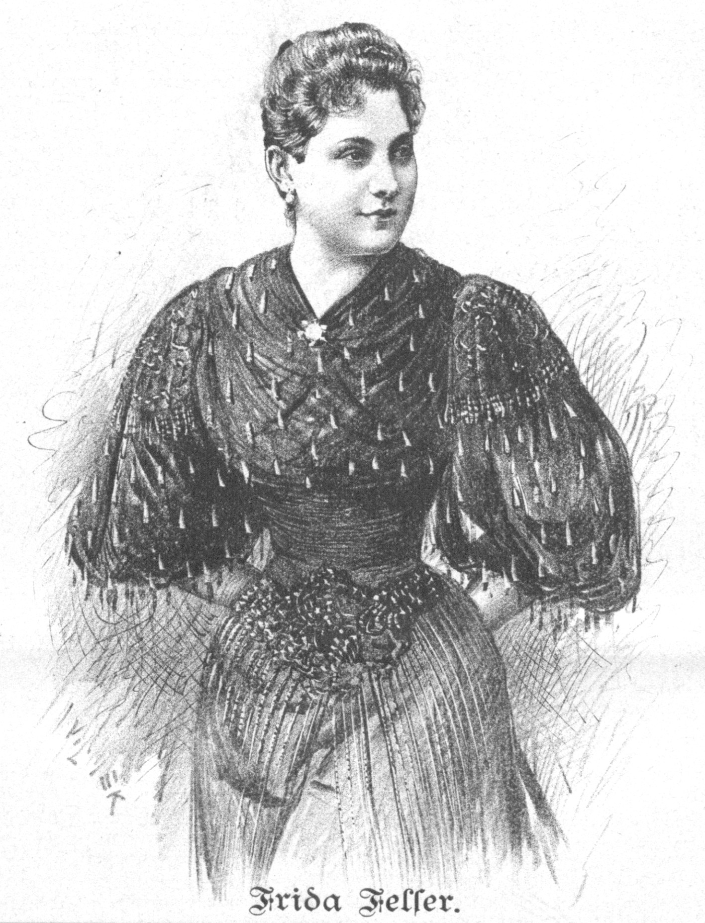 Portrait of Frida Felser (1872-1941), German opera singer.